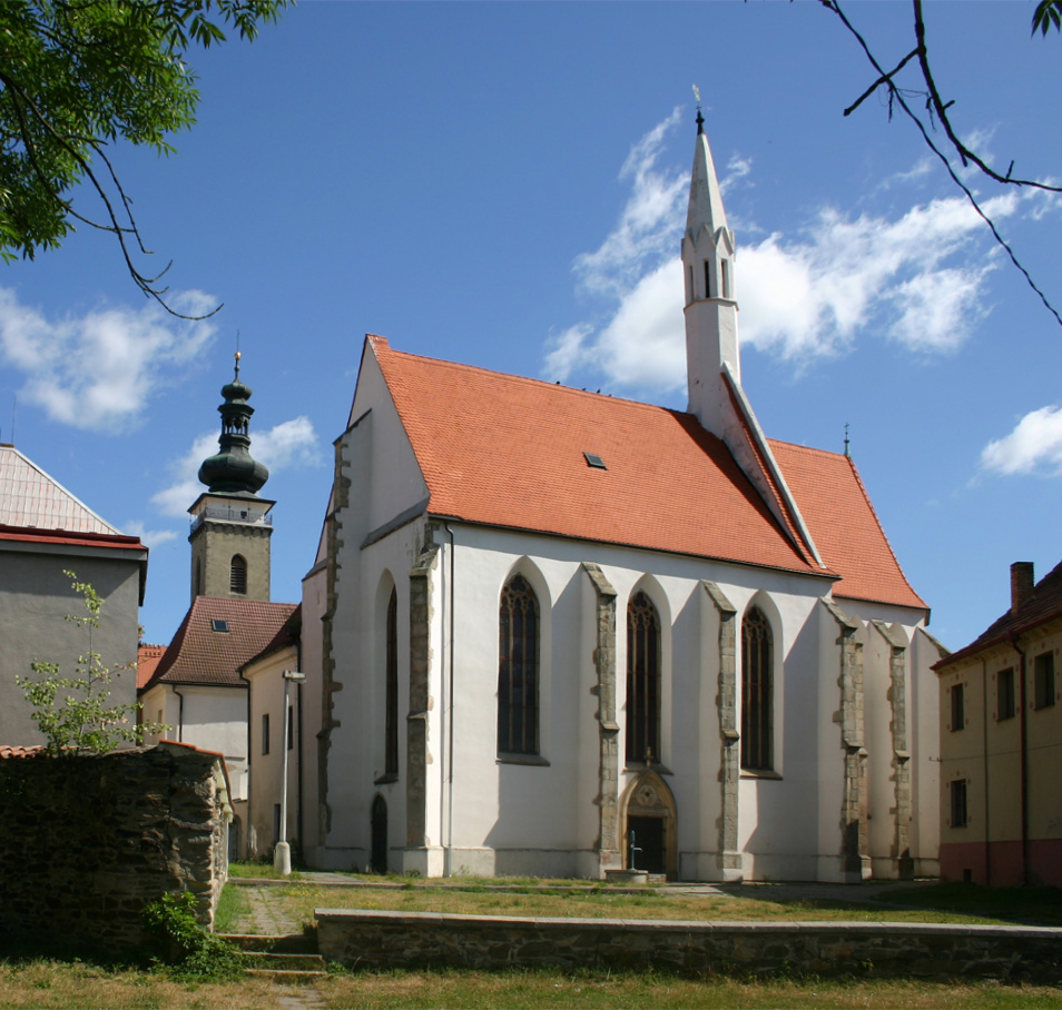 St Vitus church in Soběslav with tower of SS Peter and Paul church in the background